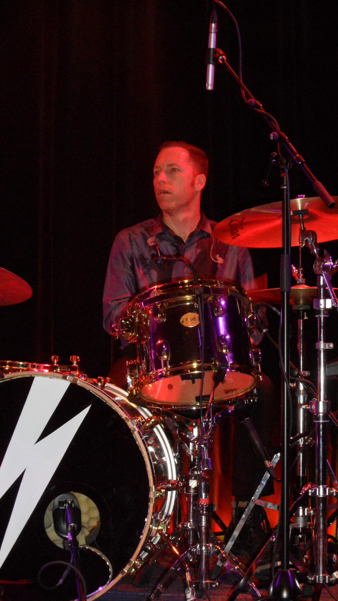 Drummer Matt Walker, see here playing with the band Sons of the Silent Age at the Wire in Berwyn, IL (Chicago suburb)